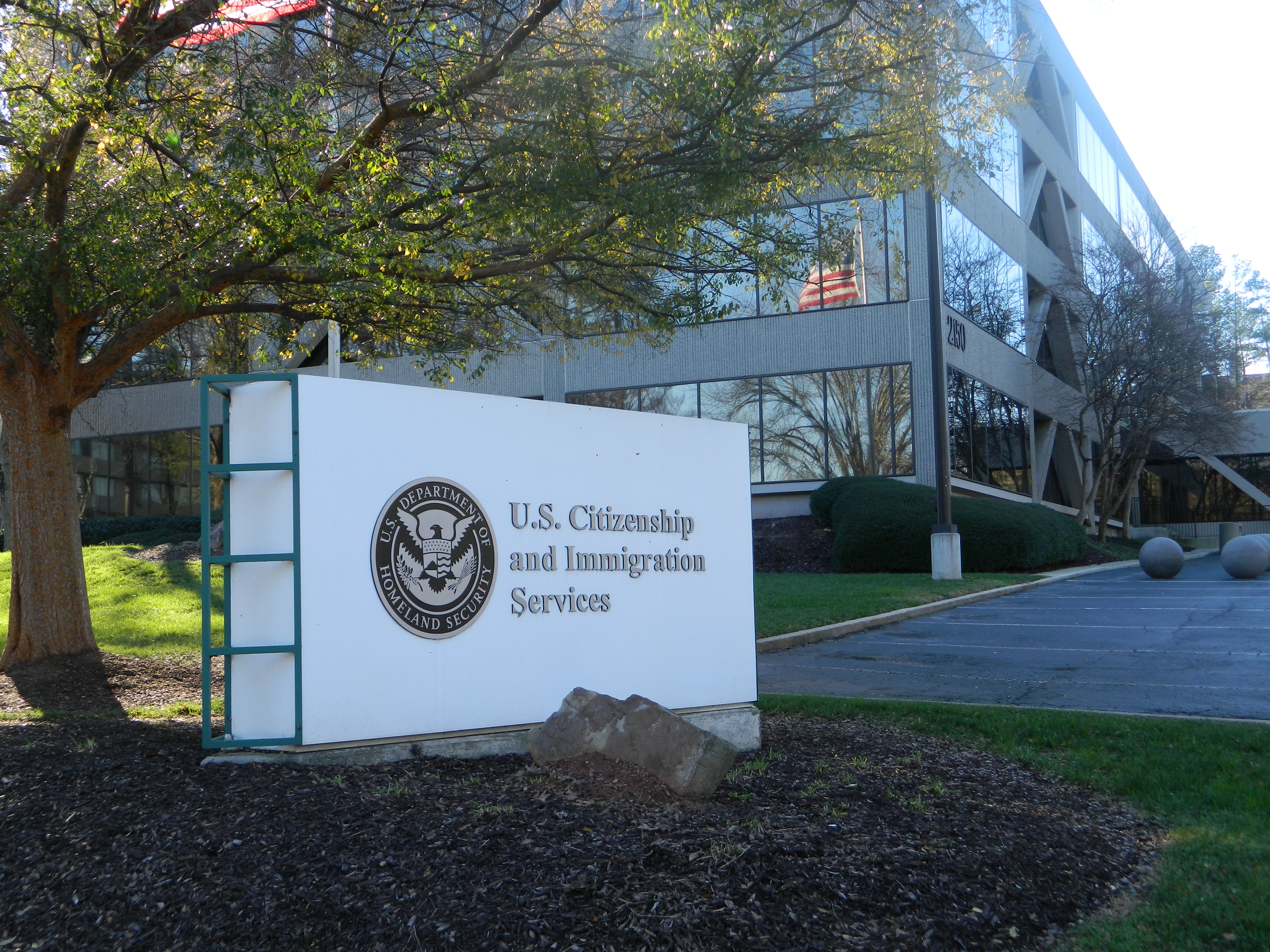 Northlake area - DeKalb County, Georgia